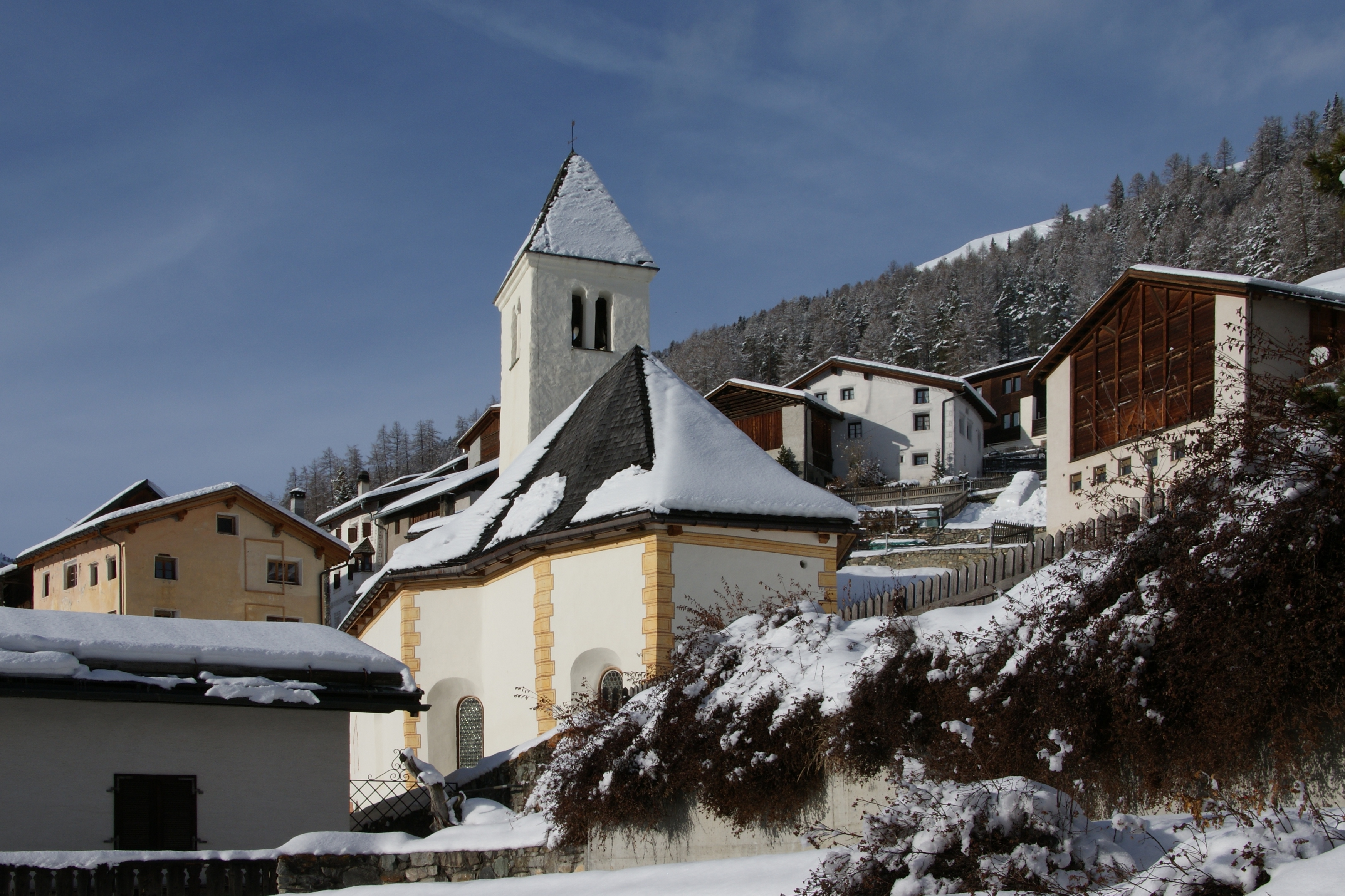 Vnà, Canton Graubünden, Switzerland